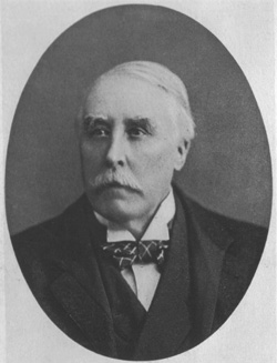 Photograph of John Hollingshead taken from My Lifetime by John Hollingshead, 2 vols, Sampson Low, Marston & Company, London 1895